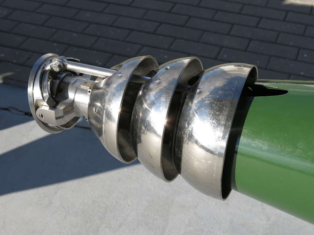 Nose cone of VA-111 Shkval presented at Expo Army 2018